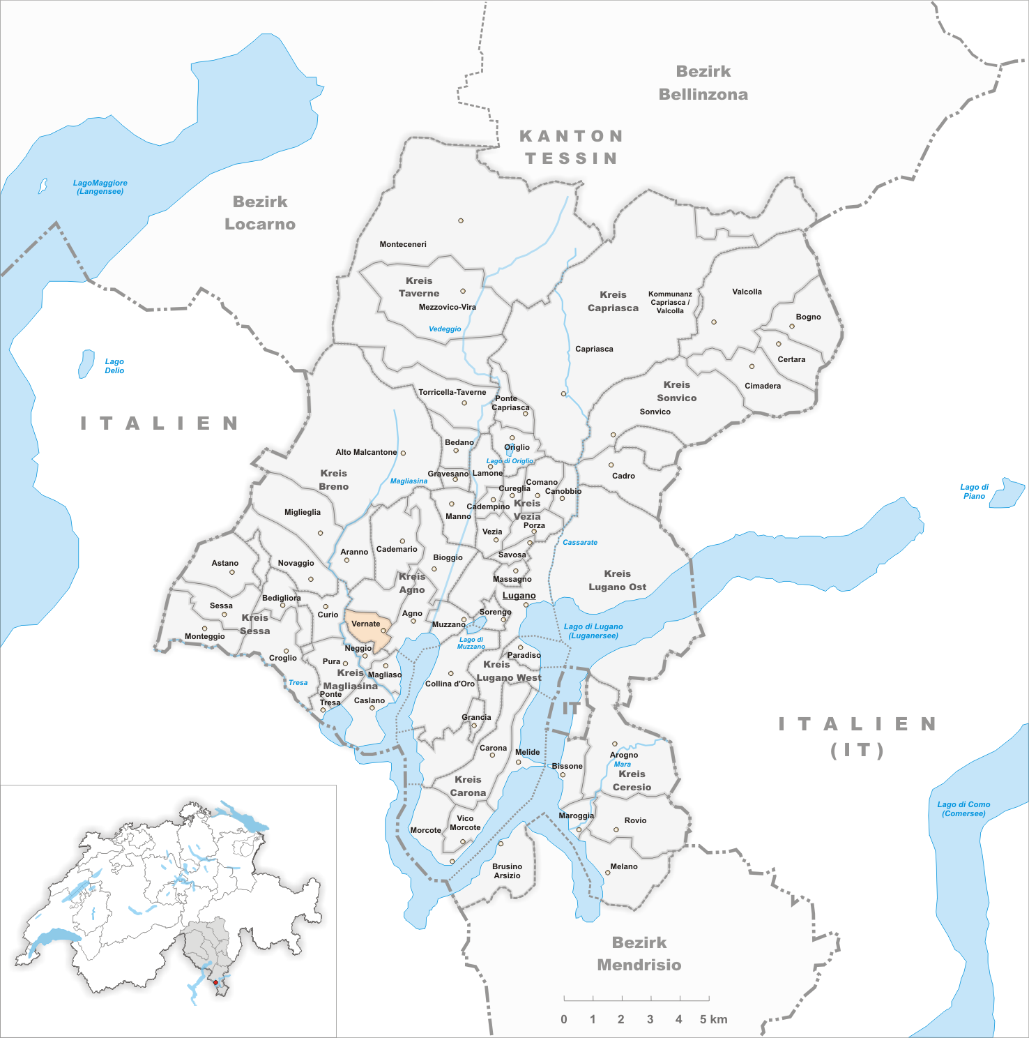 Municipality Vernate